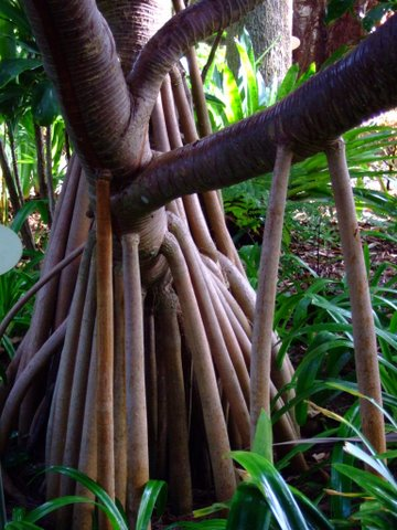 Pandanus utilis Bori, Pandanaceae (Madagaskar)